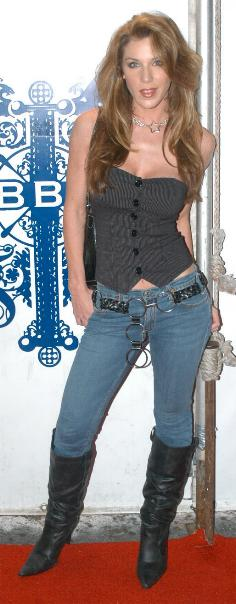 April 11 2007: Evil Angel Party.